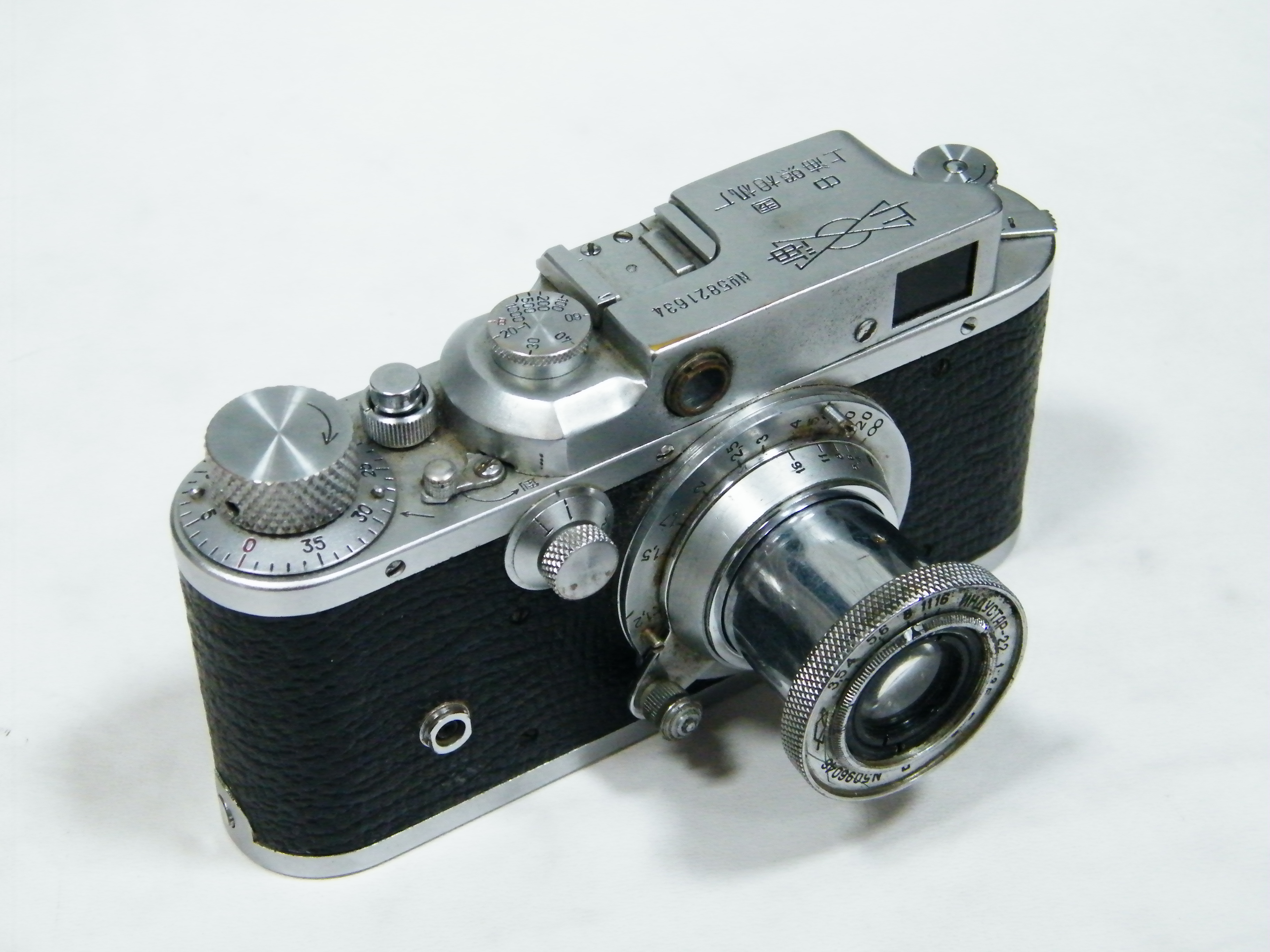 "Шанхай" - китайская "Лейка" 1958 год фото4